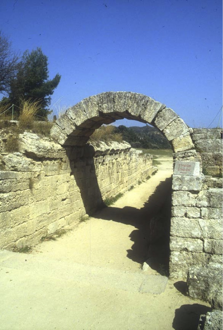 Entrance for Athletes Into Stadium-Olympia